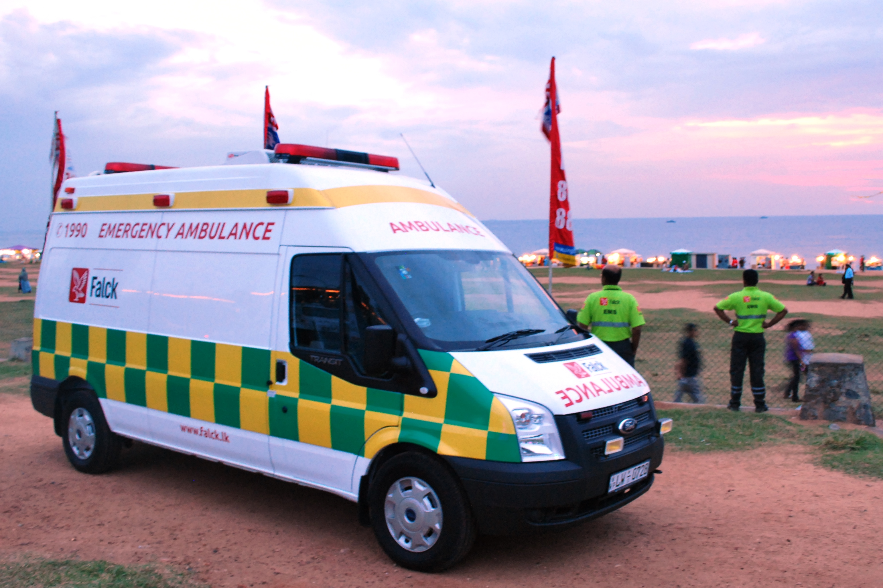 An advanced life support ambulance in Colombo, Sri Lanka